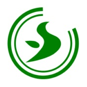 Takayama Nagano chaprer